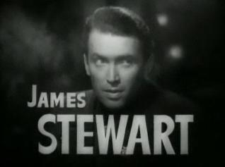 Cropped screenshot of James Stewart from the trailer for the film The Mortal Storm